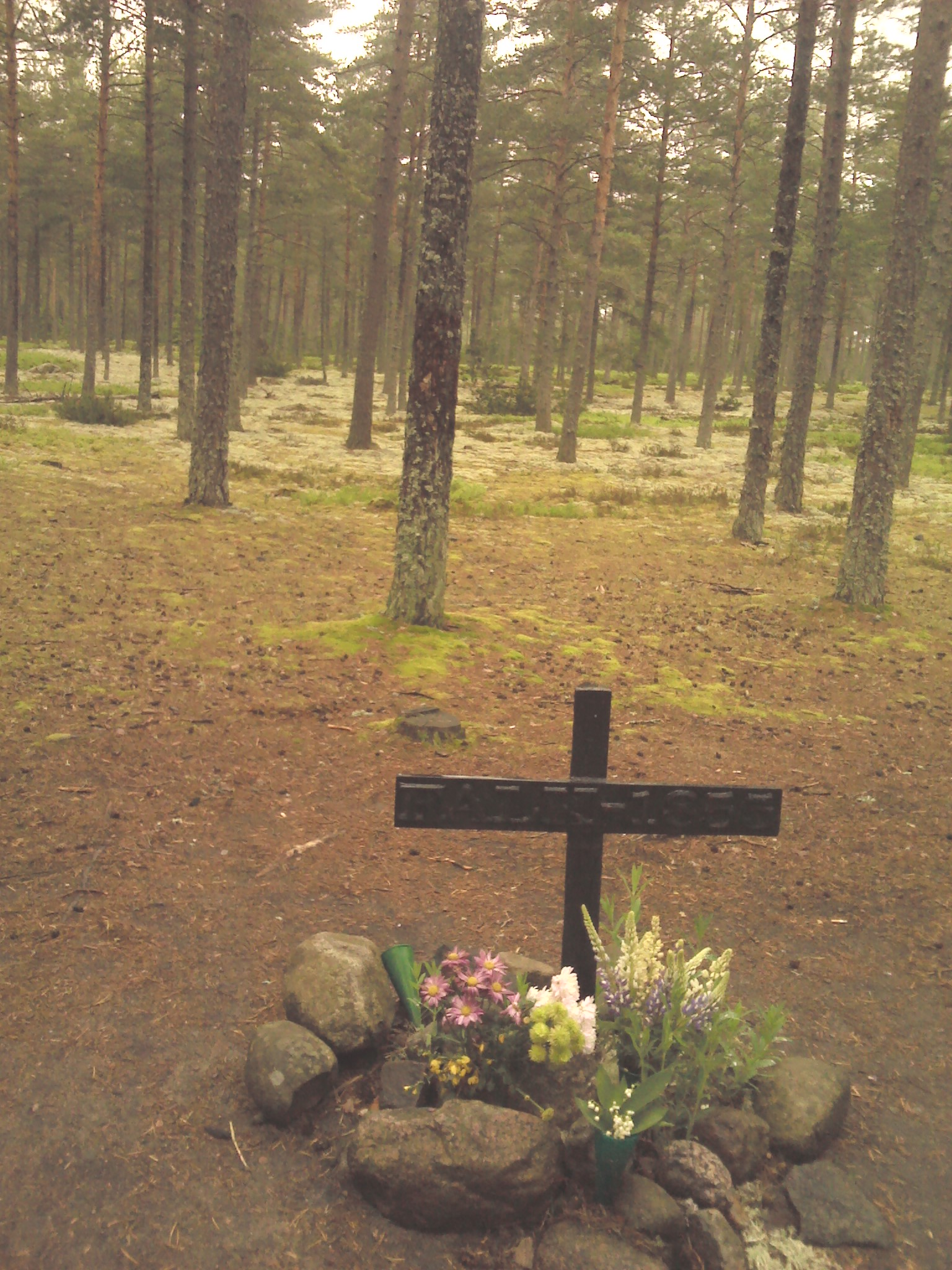 Falks grav in Habo Municipality, Sweden 5 June 2014